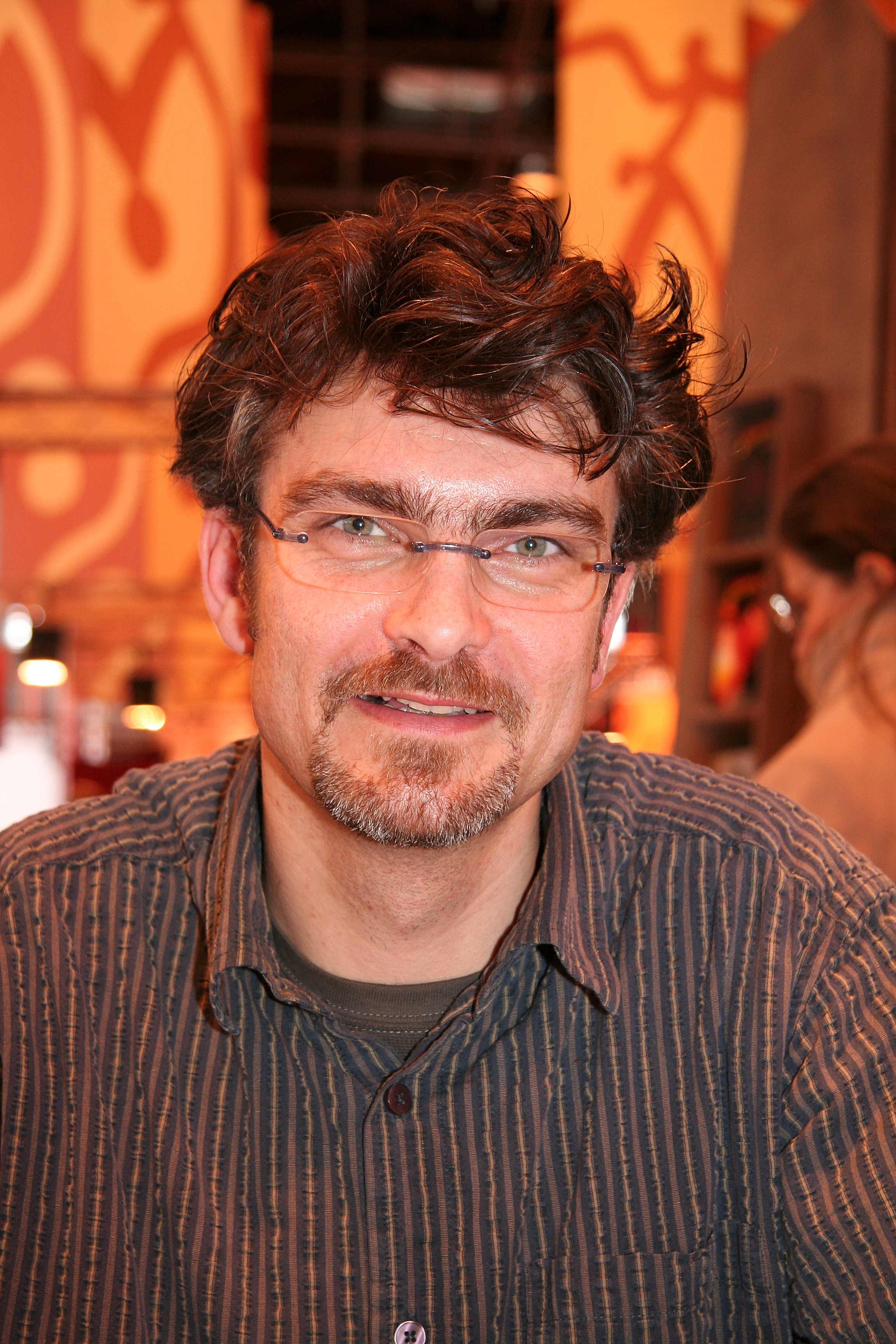 Autograph session with Didier Graffet at Salon du livre 2009 (Paris, France)